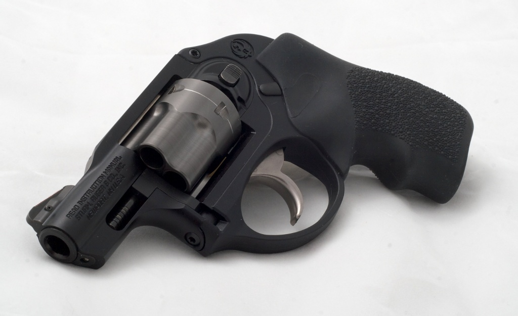 This is an image of a Ruger LCR chambered in 38 Special +P.